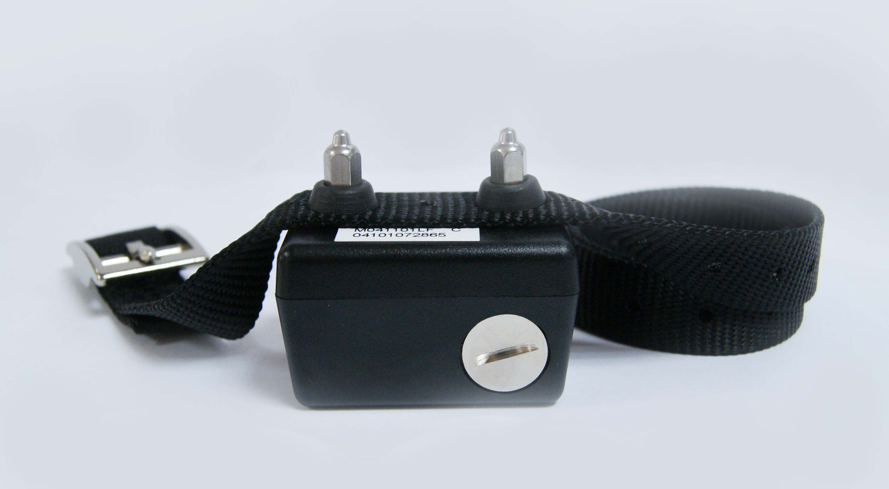 No-bark collar